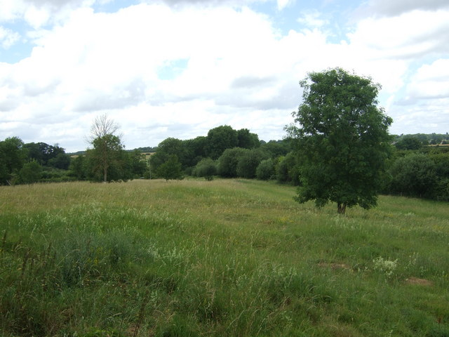 Southorpe Paddock